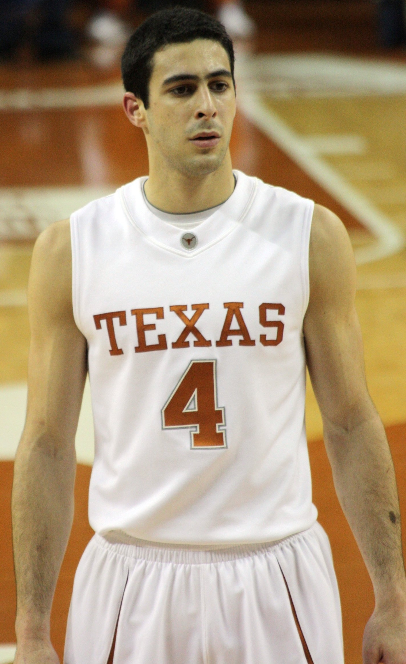 Texas Longhorns men's basketball point guard Doğuş Balbay at the Feb. 25, 2009 regular season game against Texas Tech at Frank Erwin Center in Austin, Texas.